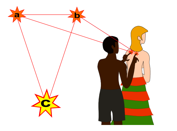 The process of triangulation as found in Quantum Entrainment, developed by Frank Kinslow. Triangulation is defined as concentration on two points of physical body (a, b) and experiencing the third factor- eu-feeling (c), which does not belong to physical category. For further information about triangulation see descriptions in: Frank Kinslow (2103): ‘Skrivnost trenutne ozdravitve. Uvod v moč kvantnega zdravljenja.Kranj, Zavod V.I.D.